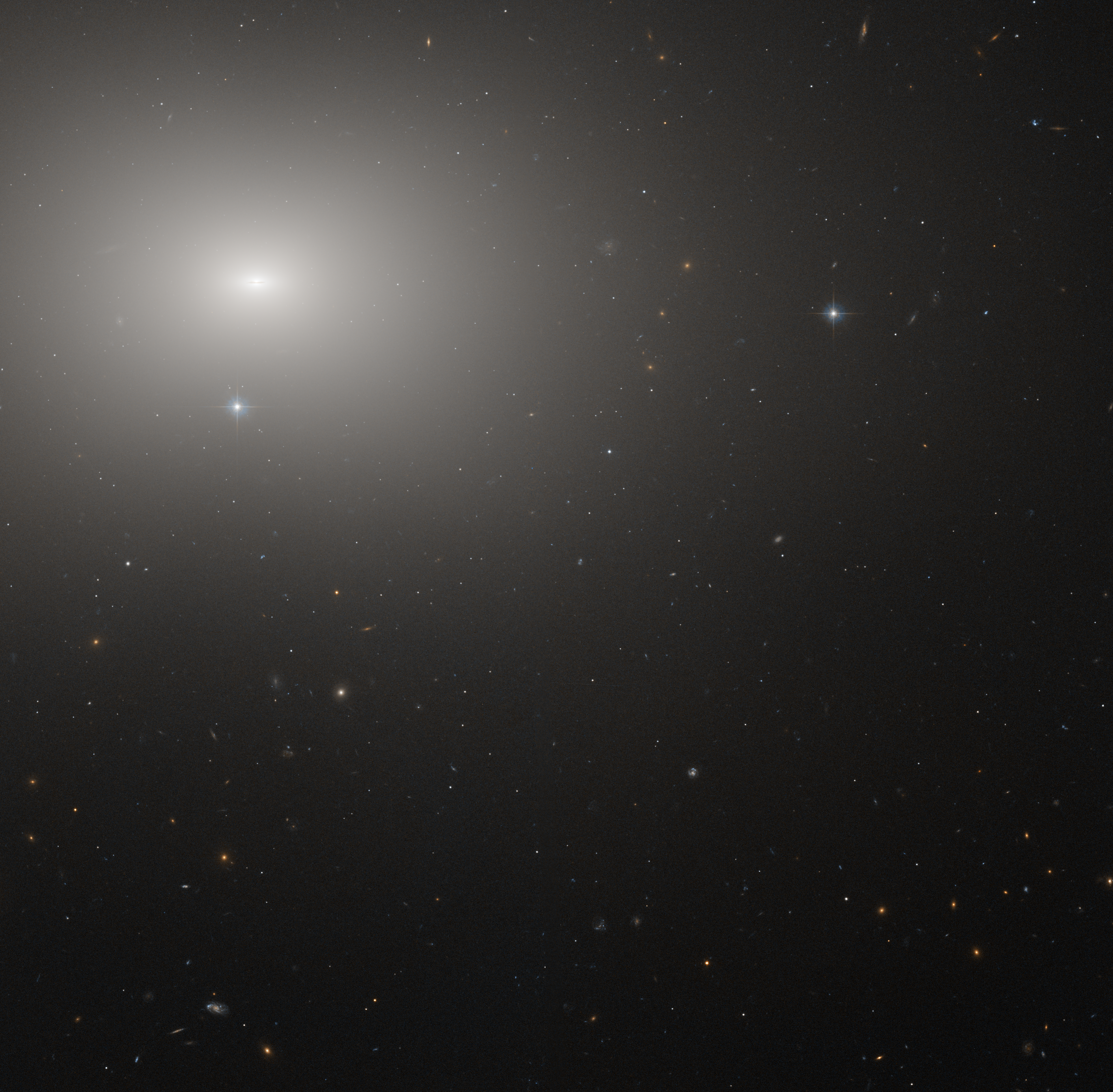 Globular clusters galore dot around this brightest cluster galaxy . You might guess that they are background galaxies and it's easy to mistake them for that or even a dim foreground star but a good portion of the fuzzy little dots here are globular clusters. If it's perfectly round, rather bright (but not one of the two big spiky foreground stars), and rather compact, it's very likely you are looking at a globular cluster. If you look very closely, you can also see a dusty disk surrounding the very bright nucleus, as well. Red: HST_9427_09_ACS_WFC_F814W_sci Green: Pseudo Blue: HST_9427_09_ACS_WFC_F435W_sci Additionally, these data were used to fill in some of the chip gap, but not all. The rest of the chip gap was filled with the same data cloning method previously described here . hst_05454_0c_wfpc2_f814w_wf_sci hst_05454_0c_wfpc2_f555w_wf_sci North is NOT up. It is 3.6° counter-clockwise from up.